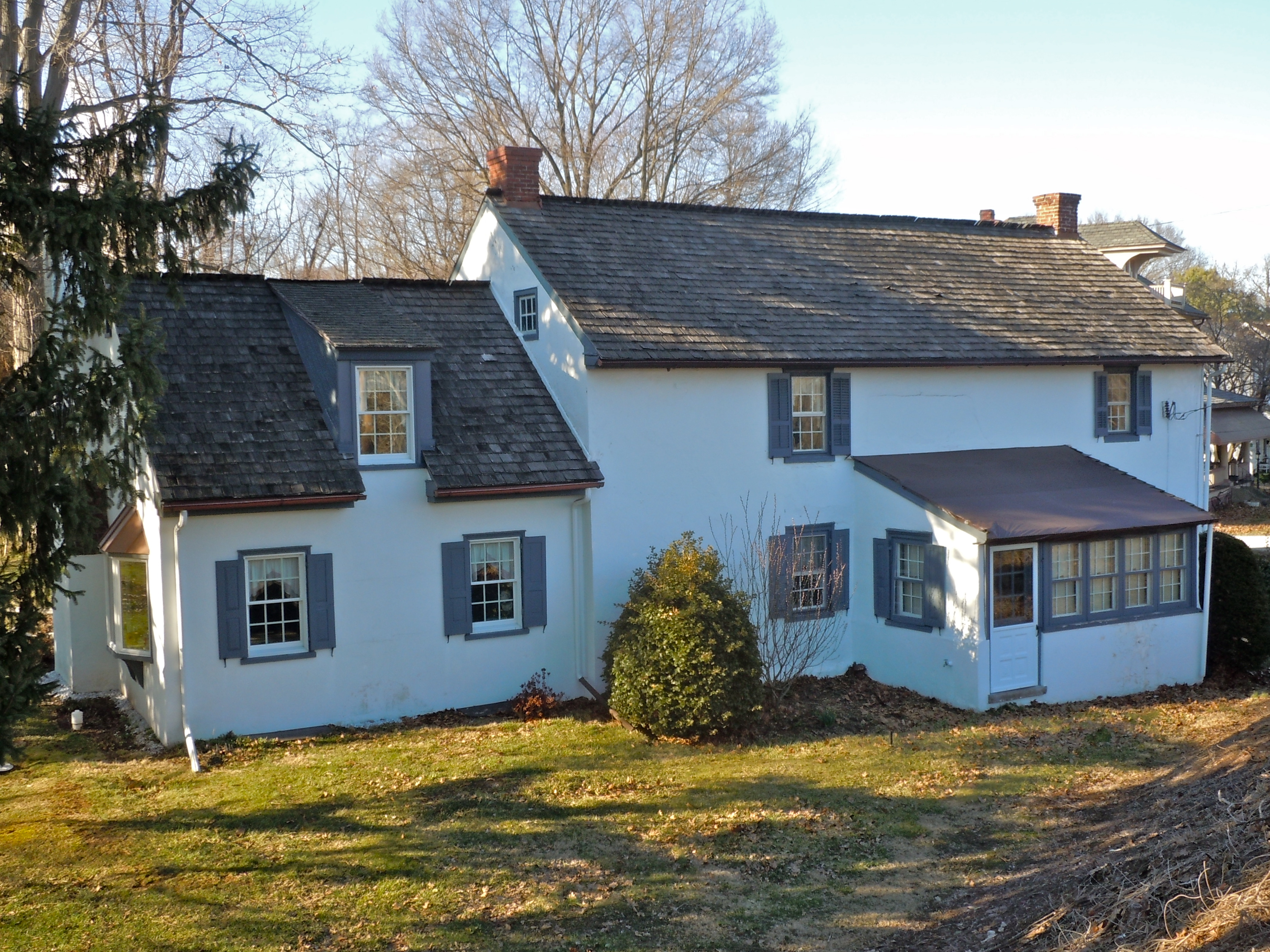 William and Mordecai Evans House on the NRHP since April 20, 2005. At 1206 Main Street (Linfield Street), Linfield, Limerick Township, Montgomery County, Pennsylvania. Near Pottstown, the Schuylkil River, and the Limerick Nuclear Station.